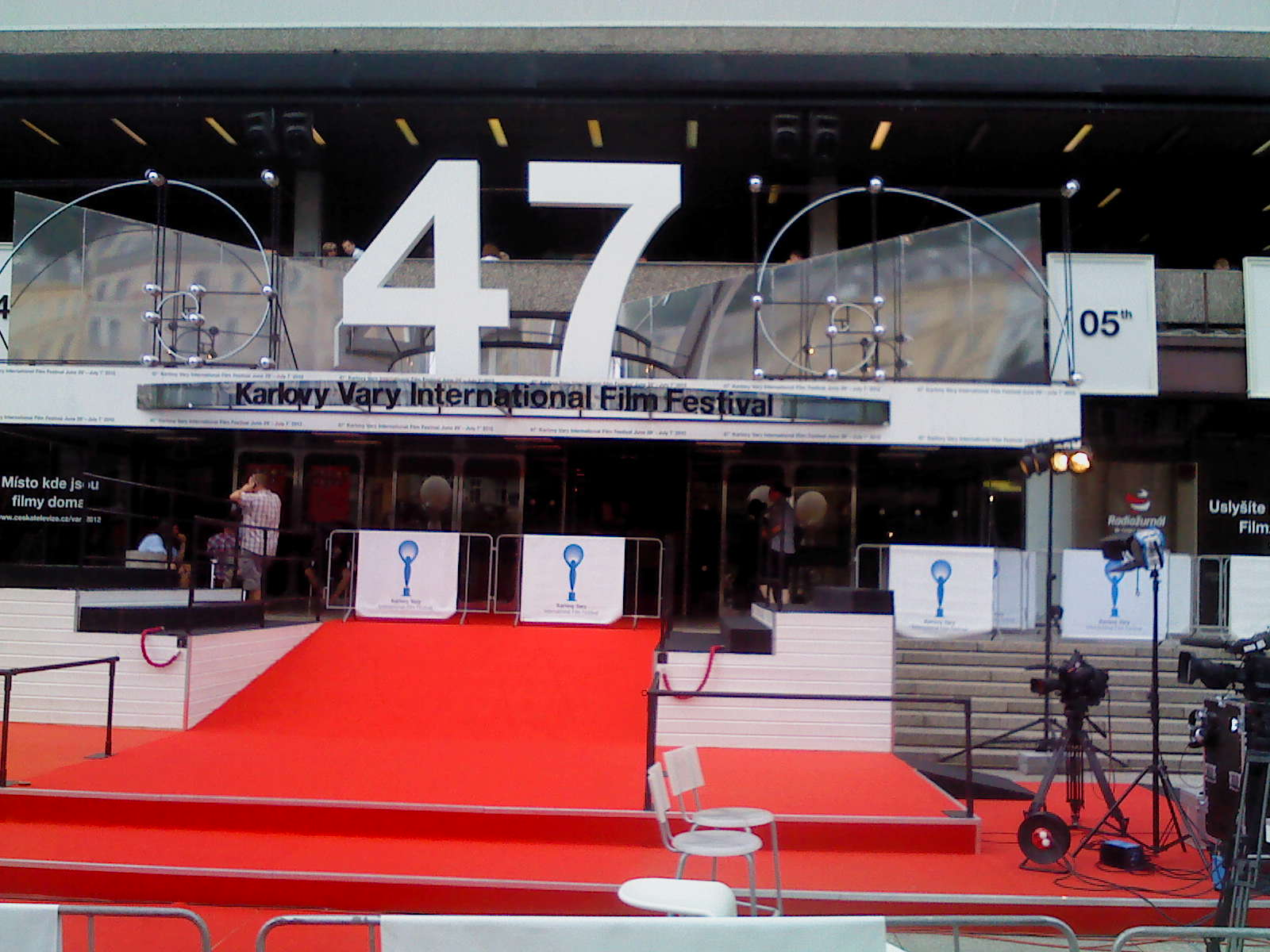 47th Karlovy Vary International Film Festival - main entrance.